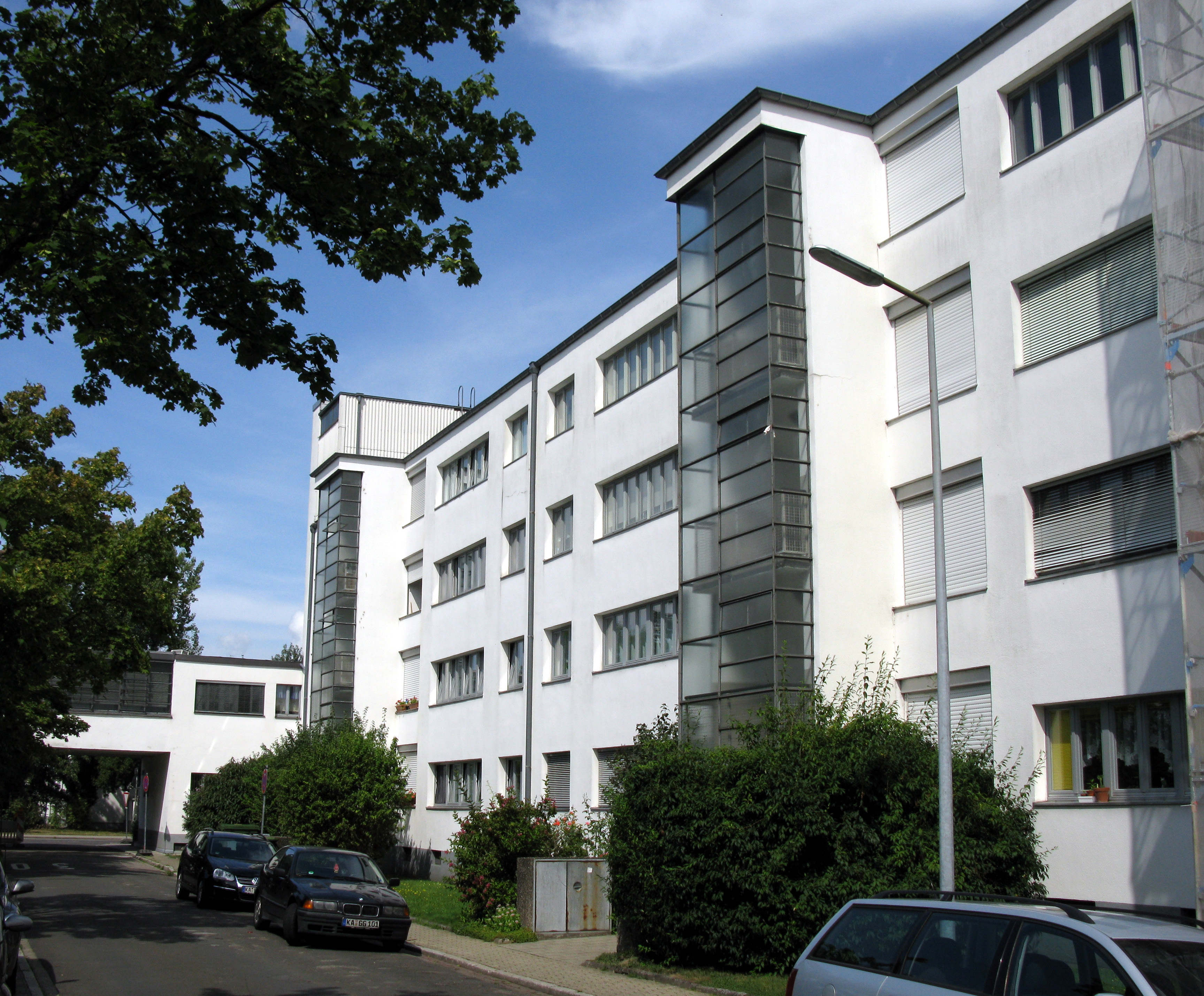 Dammerstock settlement in Karlsruhe